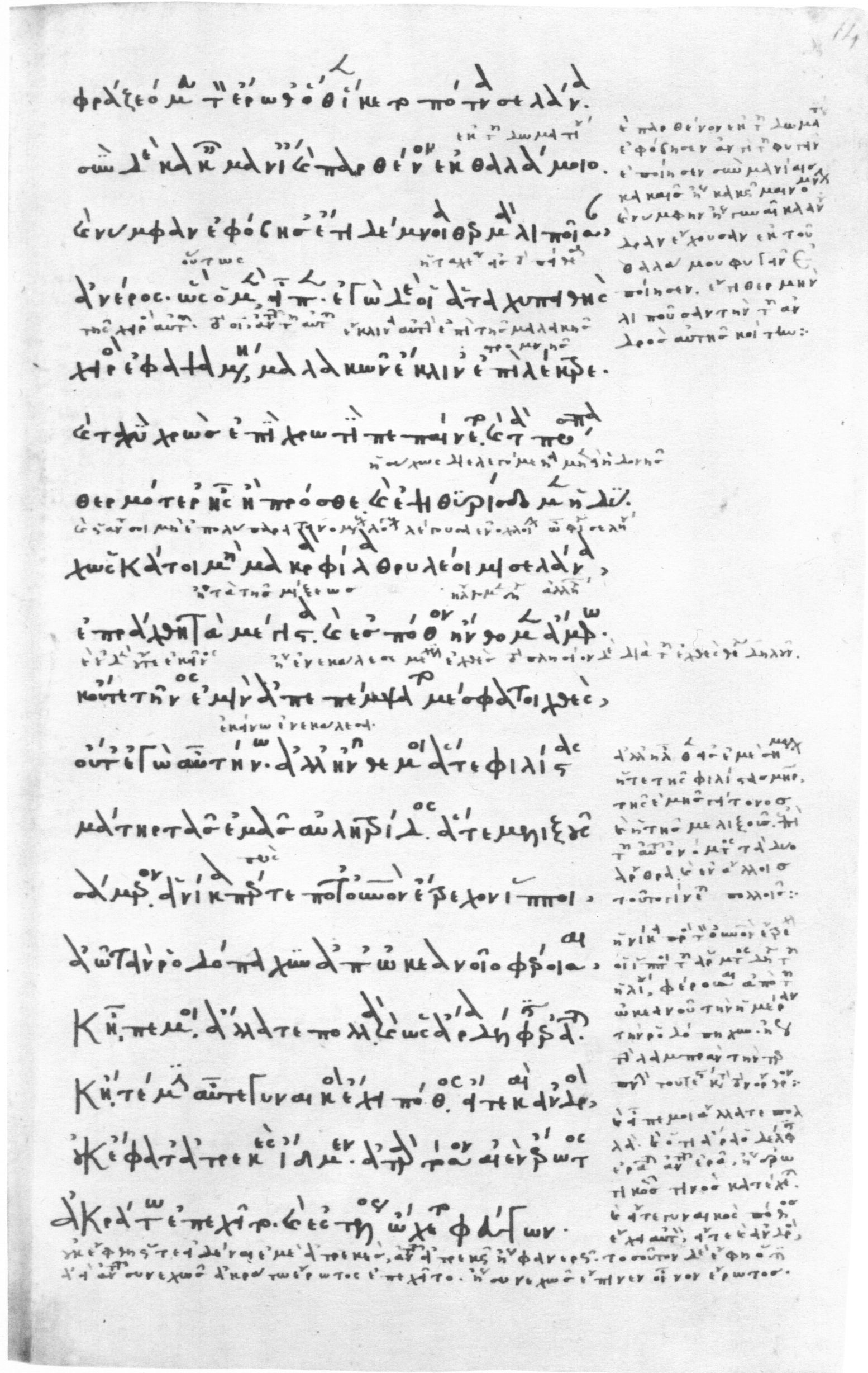 Theocritus, Poems, with scholia by Manuel Moschopoulos, in ms. Ferrara, Biblioteca Comunale Ariostea, Codex II,155, fol. 14r.